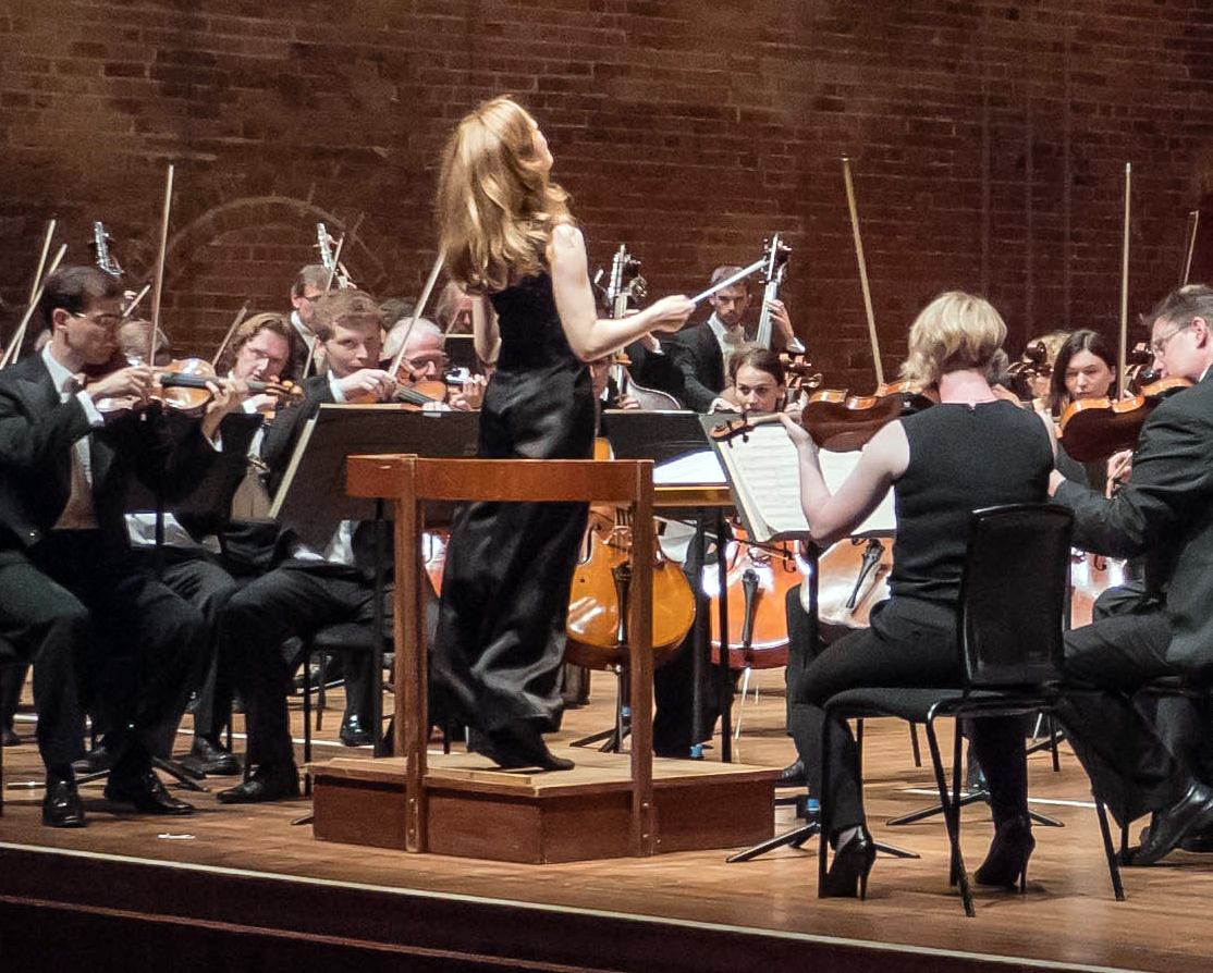 Mirga Gražinytė-Tyla conducting the City of Birmingham Symphony Orchestra at the Snape Maltings Concert Hall during the Aldeburgh Festival, 2017.